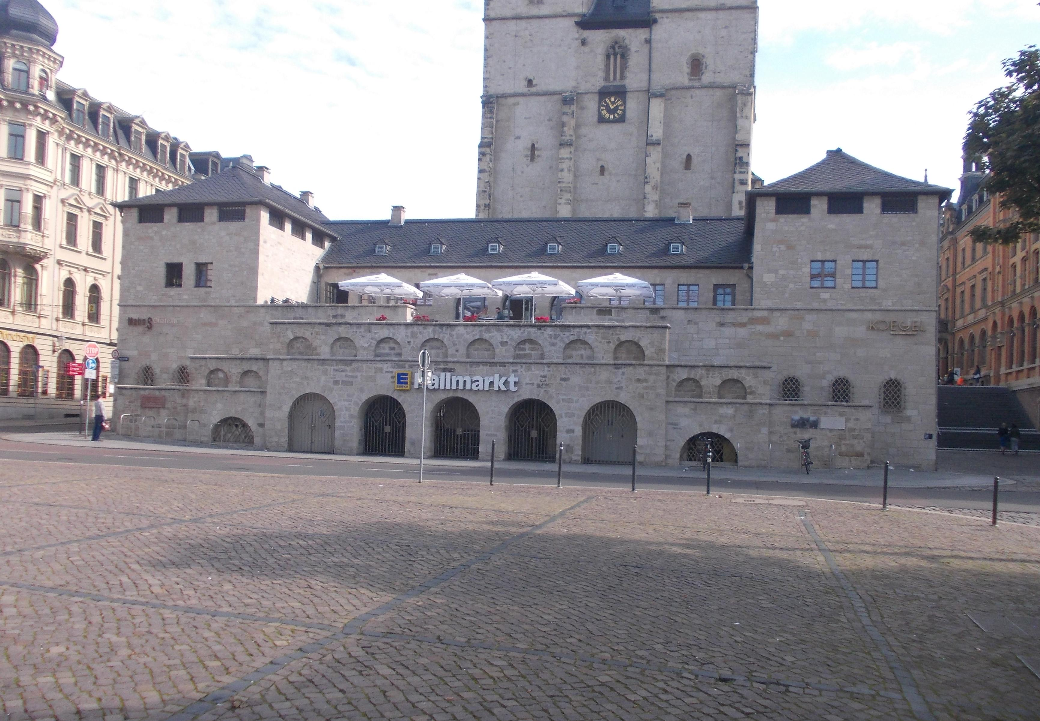 Former electrical substation from 1924 (architect Wilhelm Jost) in Hallmarkt square in Halle/Saale (Saxony-Anhalt)